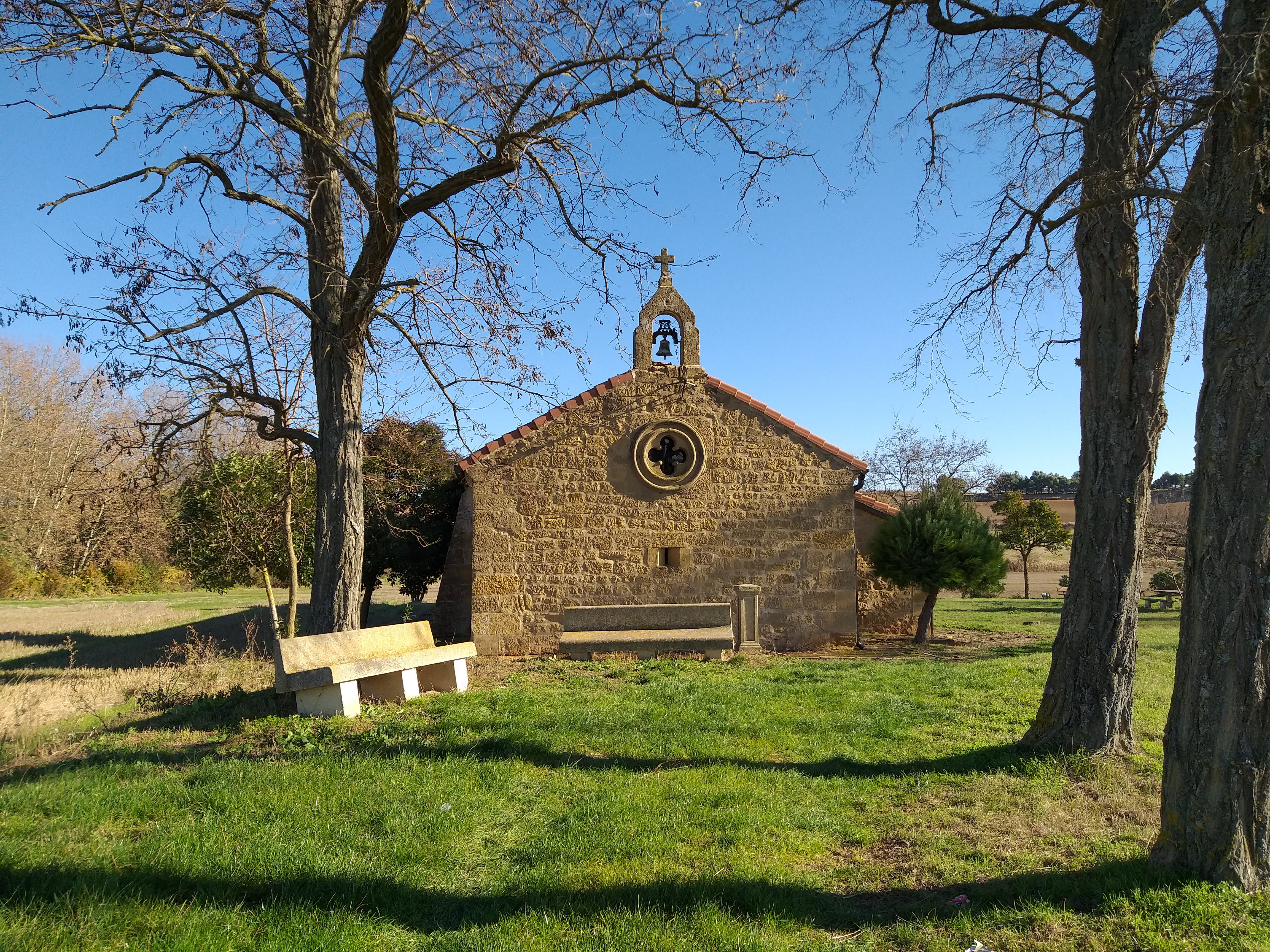 Rodezno's hermitage